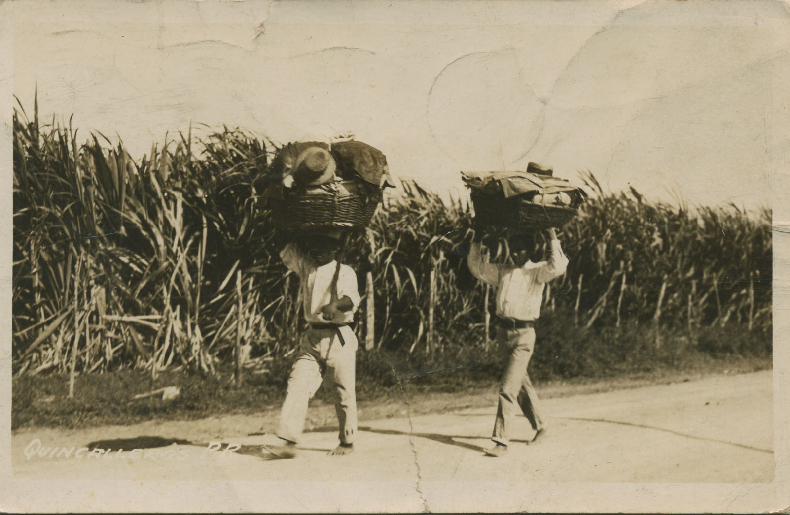 Attilio Moscioni, Real-photo postcard. Gleach/Santiago-Irizarry Collection